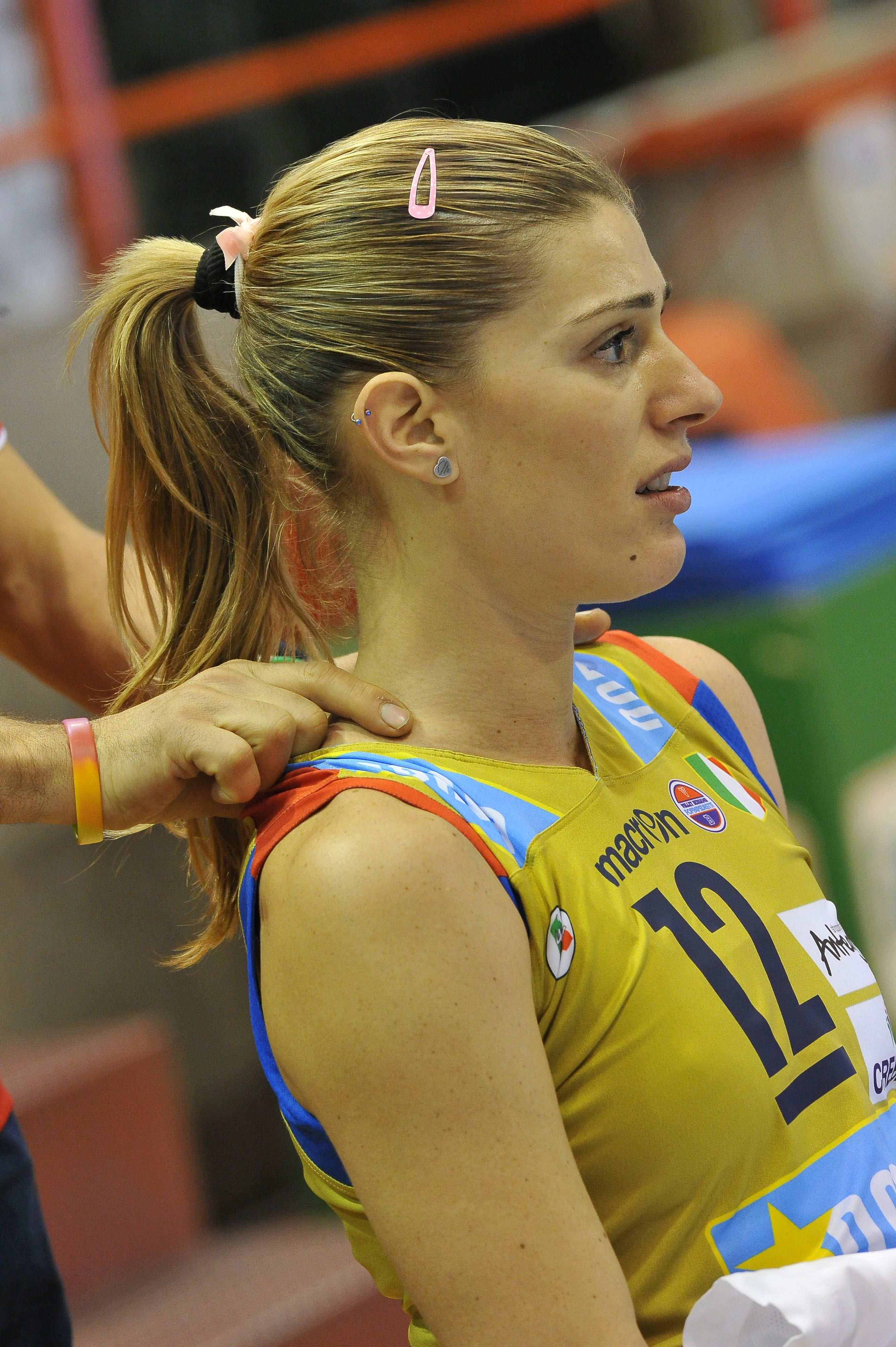 Italian volleyball player Francesca Piccinini.